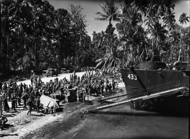 World War 2 New Zealand troops, on Vella Lavella, Solomon Islands, preparing for the Green Island campaign, circa 1944. Photographer unidentified. World War 2 New Zealand troops, Vella Lavella, Solomon Islands. New Zealand. Department of Internal Affairs. War History Branch :Photographs relating to World War 1914-1918, World War 1939-1945, occupation of Japan, Korean War, and Malayan Emergency. Ref: WH-0487-F. Alexander Turnbull Library, Wellington, New Zealand.